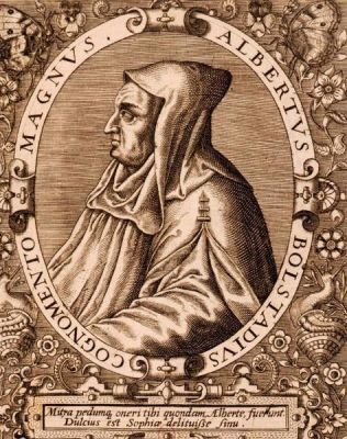 Albertus Magnus